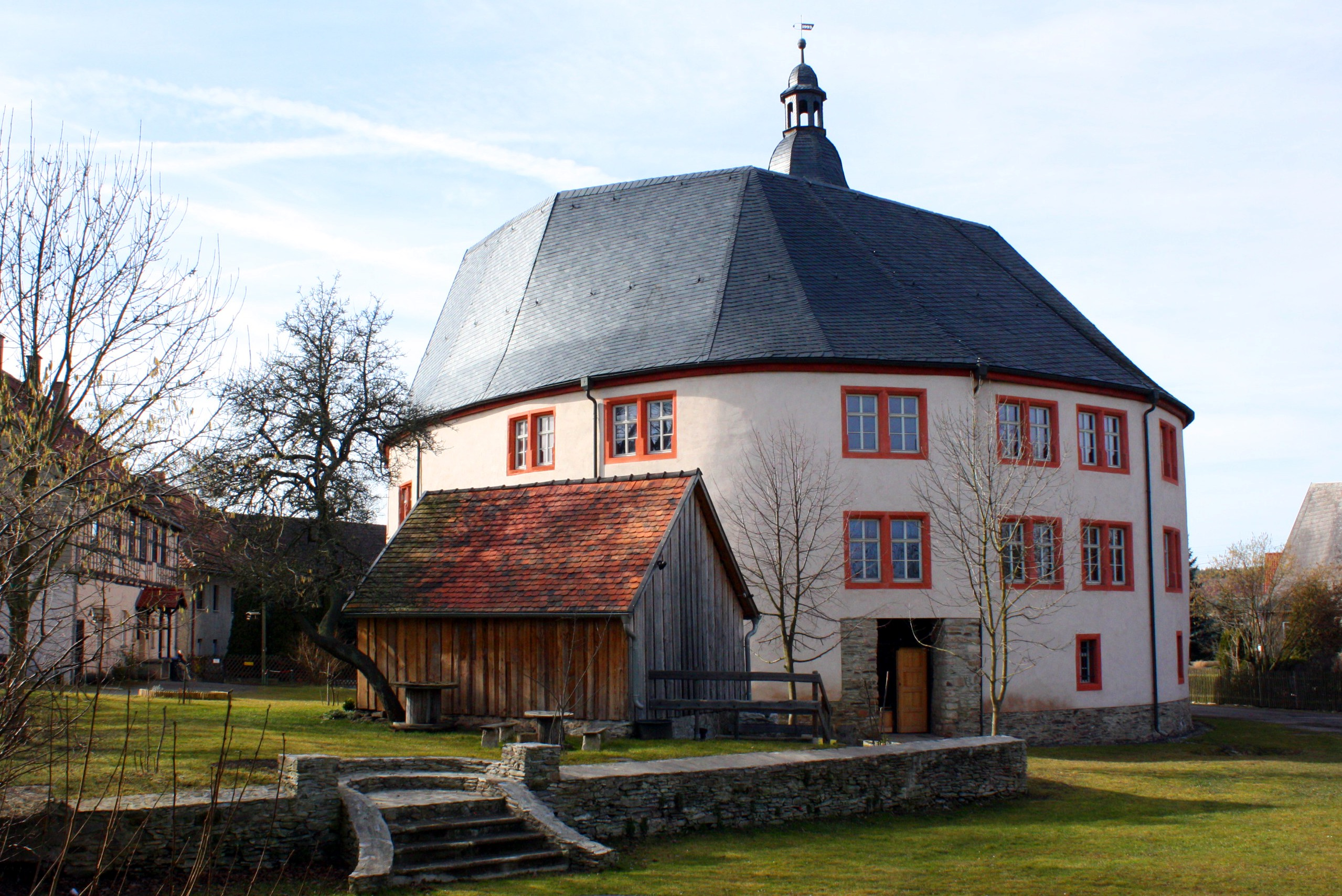 Castle in Triptis-Oberpöllnitz near Gera/Thuringia